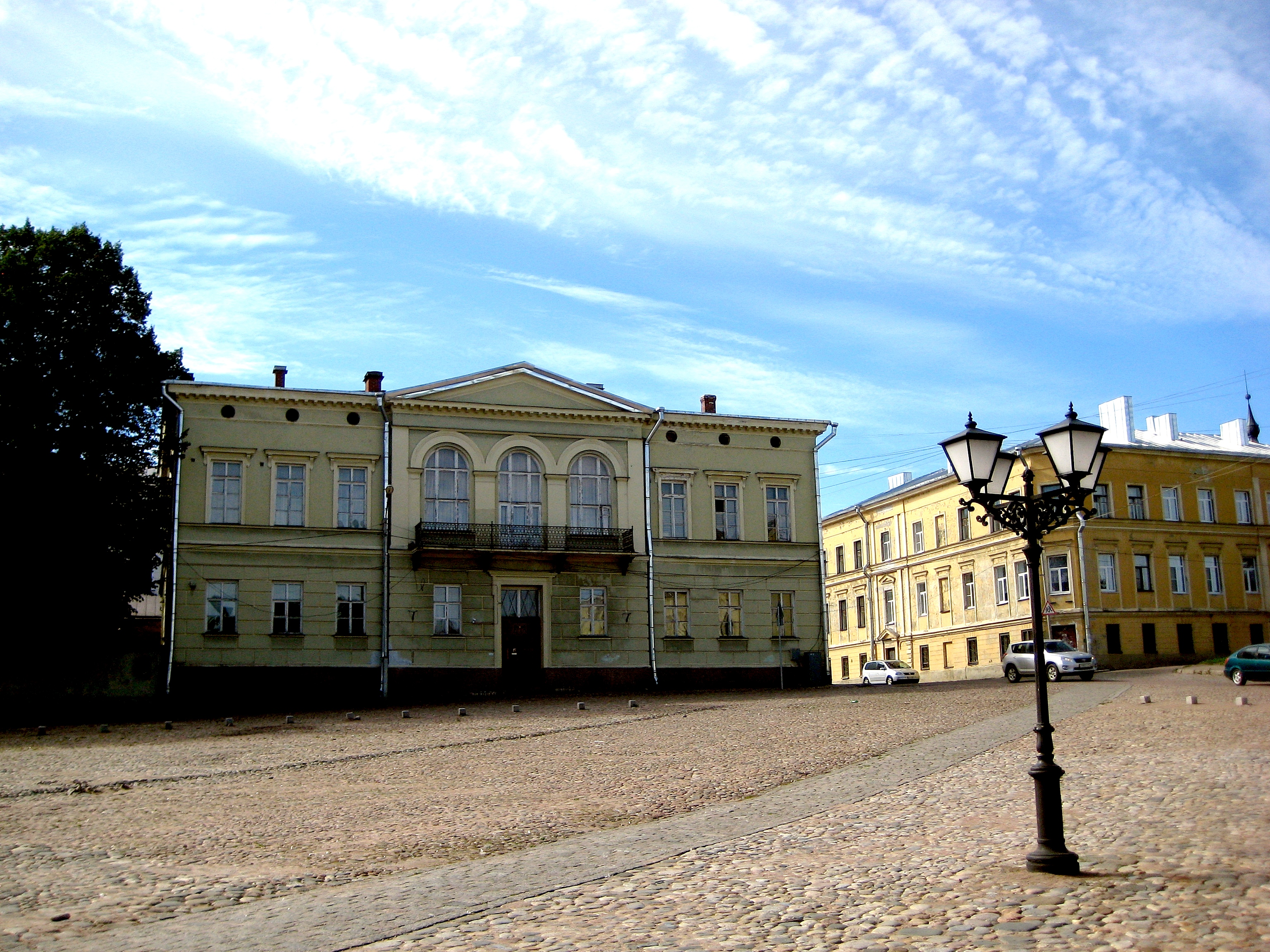 Vyborg. President's House the Provincial Court (Watch Tower Street. 25)